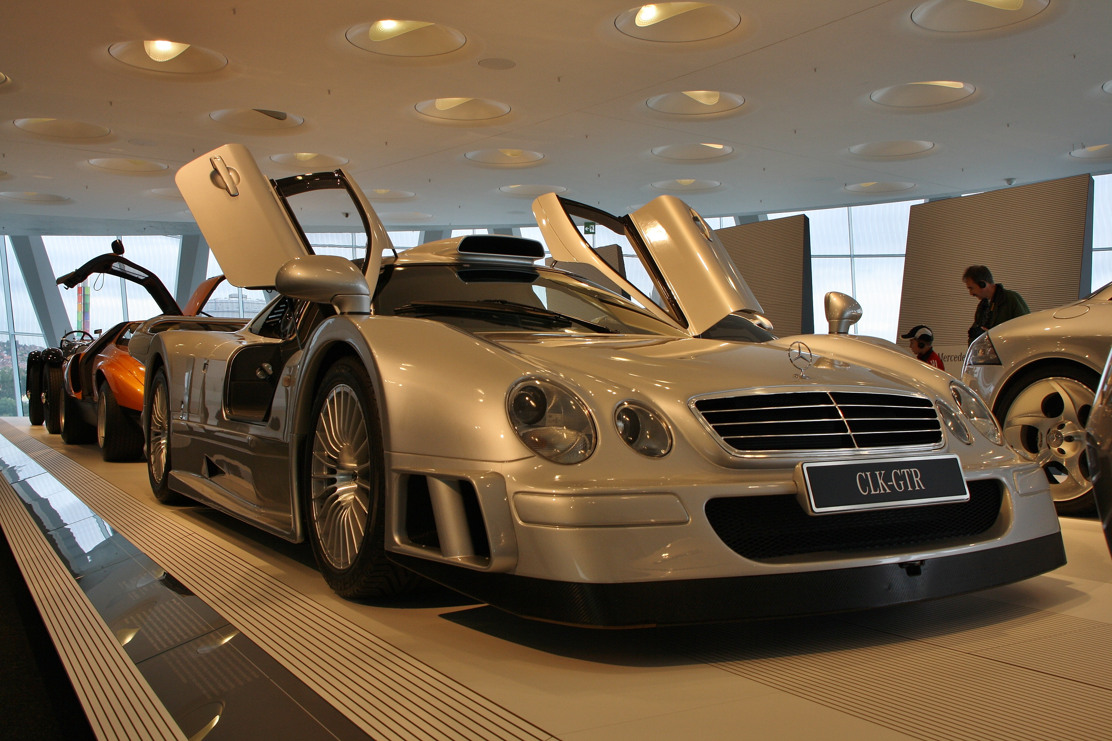 The Mercedes-Benz CLK GTR at the Mercedes-Benz Museum in Stuttgart, Germany.